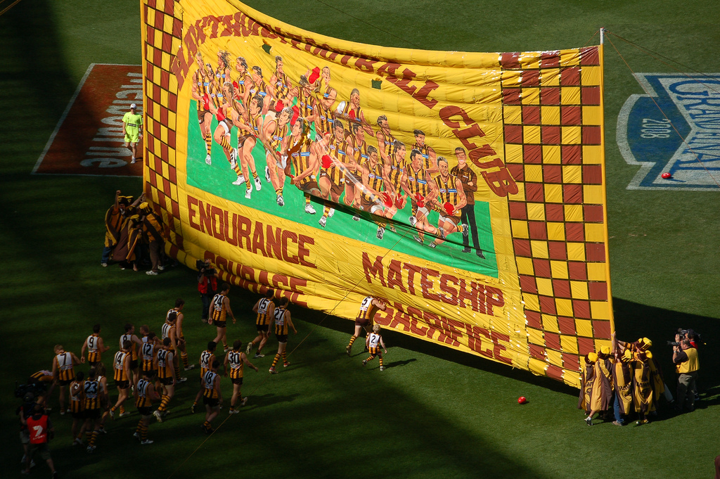 The Hawthorn Football Club running through the banner at the 2008 AFL Grand Final.